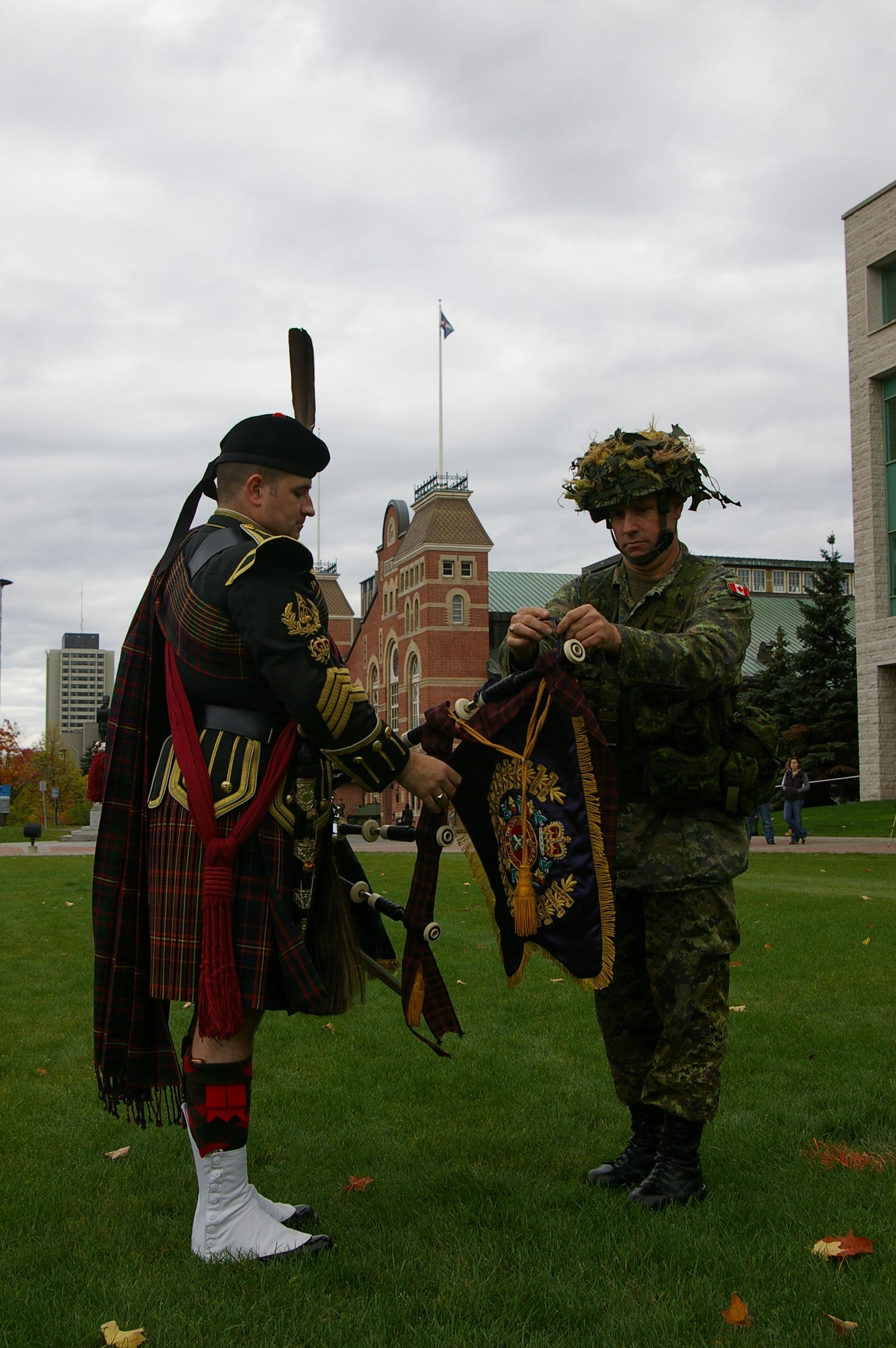 LCol Bud Walsh Presents Pipe banner to Pipe-Major Alan Clark - 20 Oct 2007 in Ottawa, Ontario.